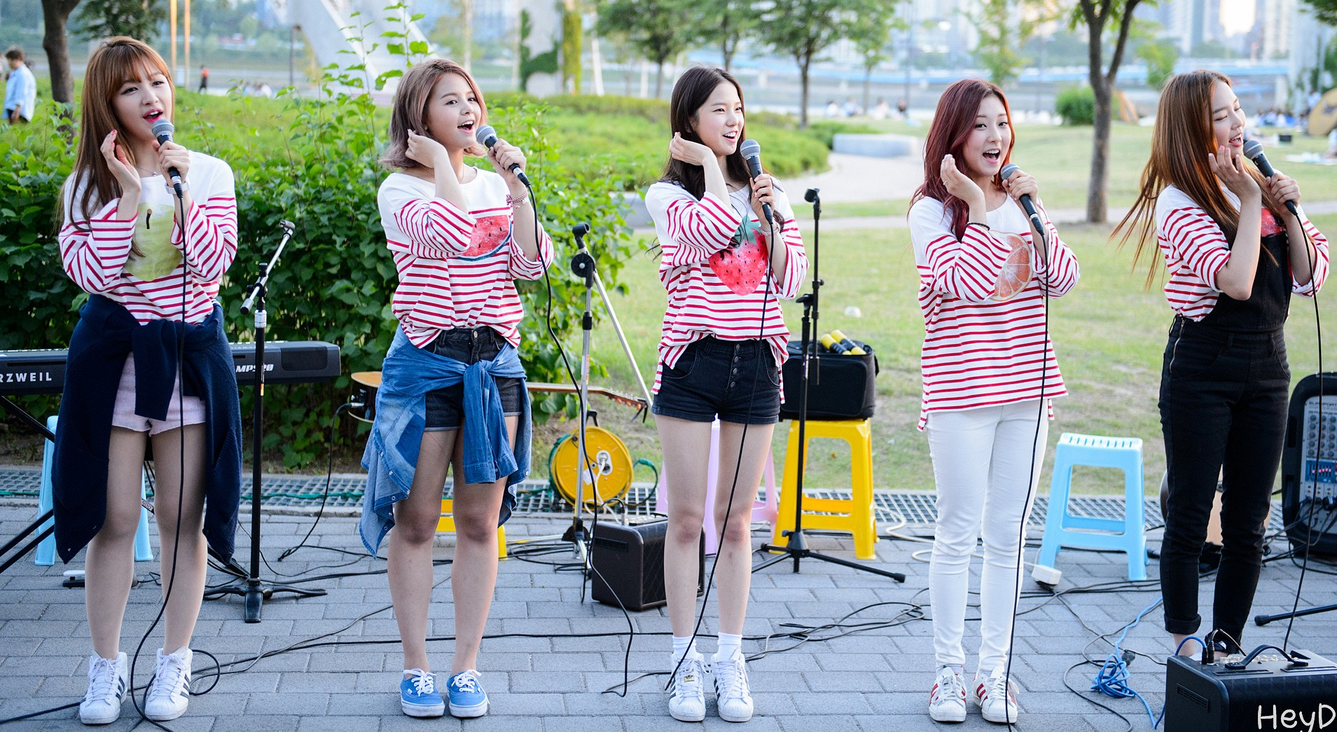 CLC in Ttukseom Hangang Park, 3 June 2015